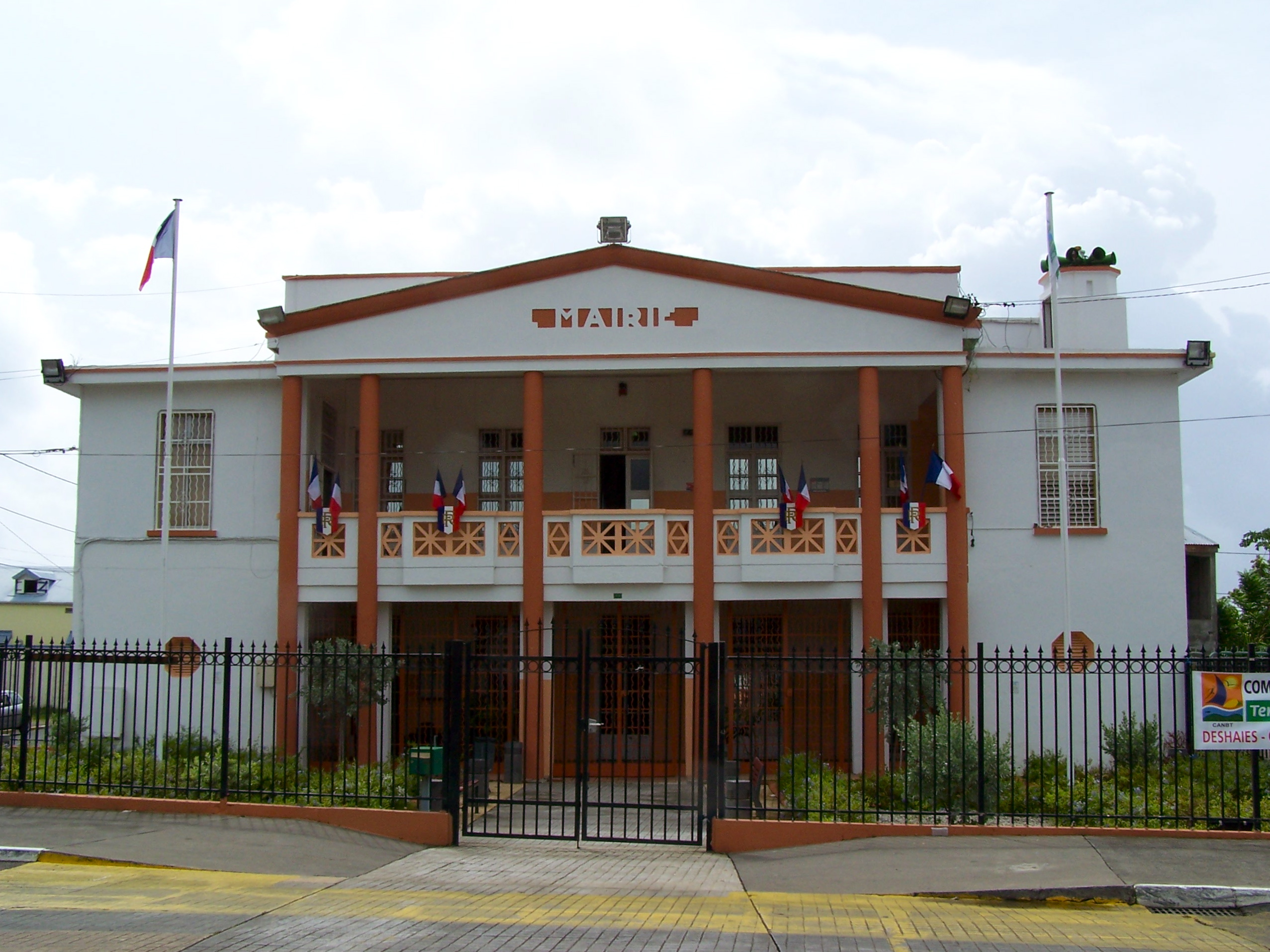 Mairie de Petit-Bourg